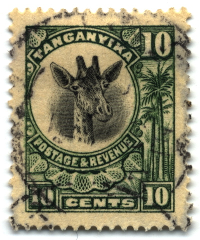 Scan of Tanganyika 10c stamp of 1925